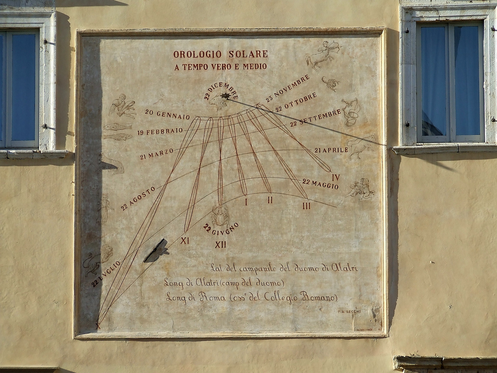 Sundial of Palazzo Conti-Gentili, Alatri, by Angelo Secchi